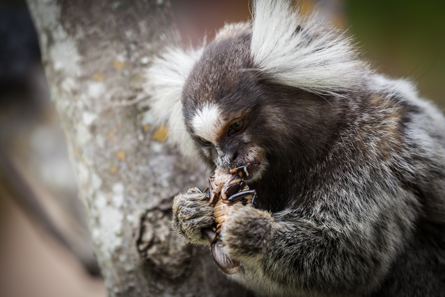 Common marmoset (Callithrix jacchus) eating a cockroach.